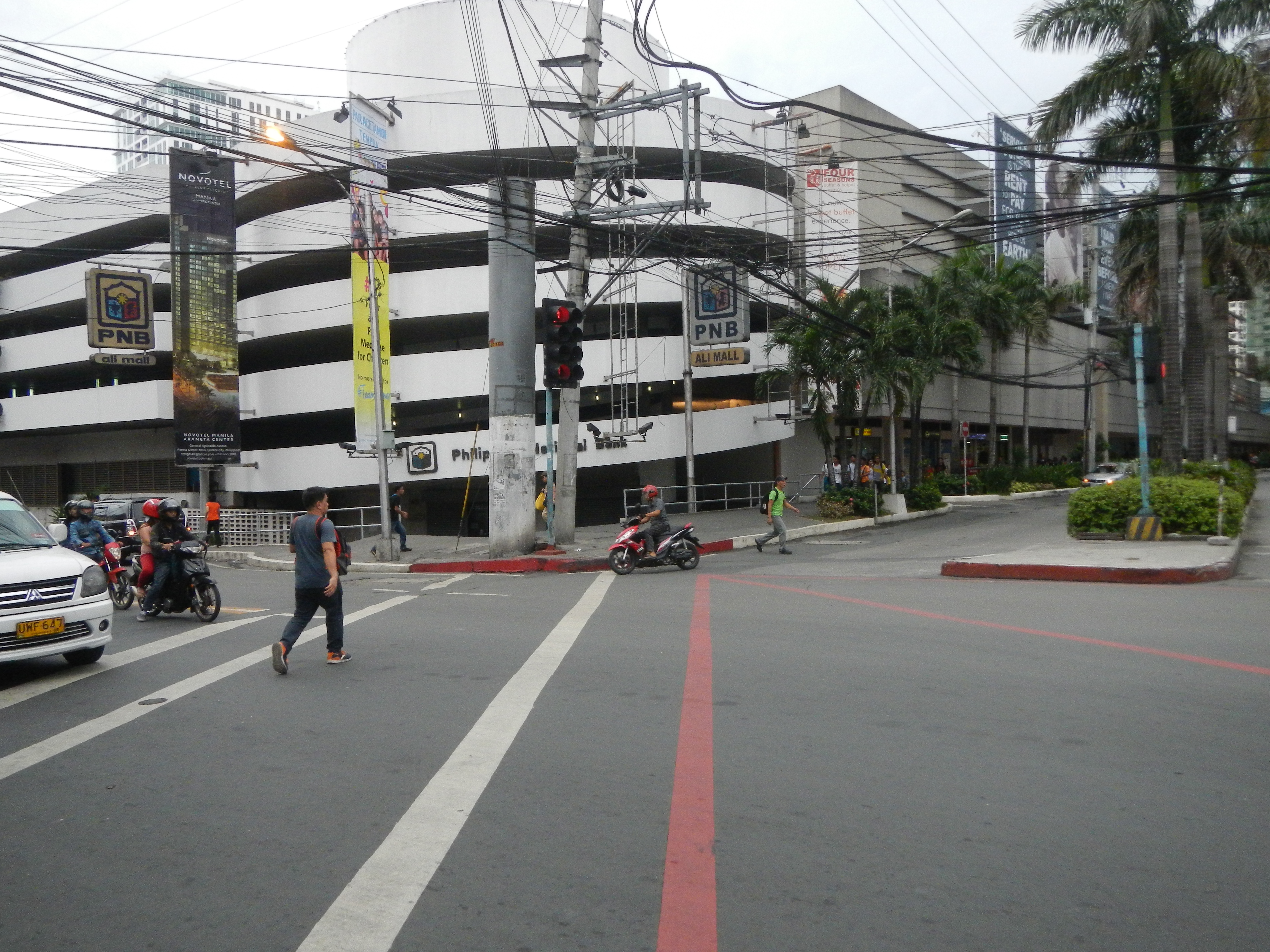 List of barangays of Metro Manila Legislative districts of Quezon City Districts 3, Barangays of Quezon City, Barangay San Roque (Cubao Extension), District III, Cubao, Quezon City beside Barangay Socorro, Quezon City, District III, Cubao, Quezon City, Araneta Center Araneta Center from P. Tuazon Boulevard.